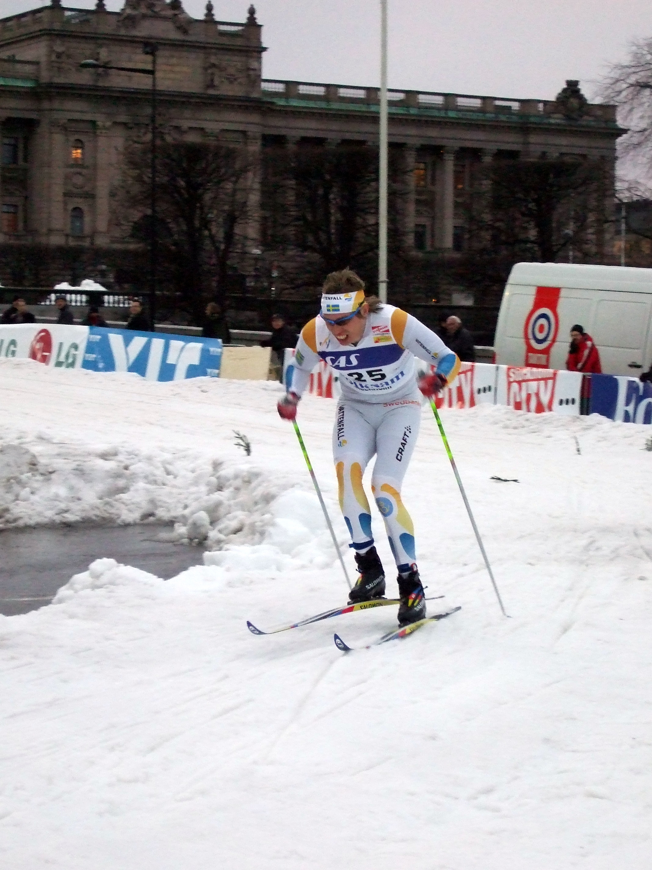 Peter Larsson at the Royal Castle World Cup sprint in Stockholm, Sweden